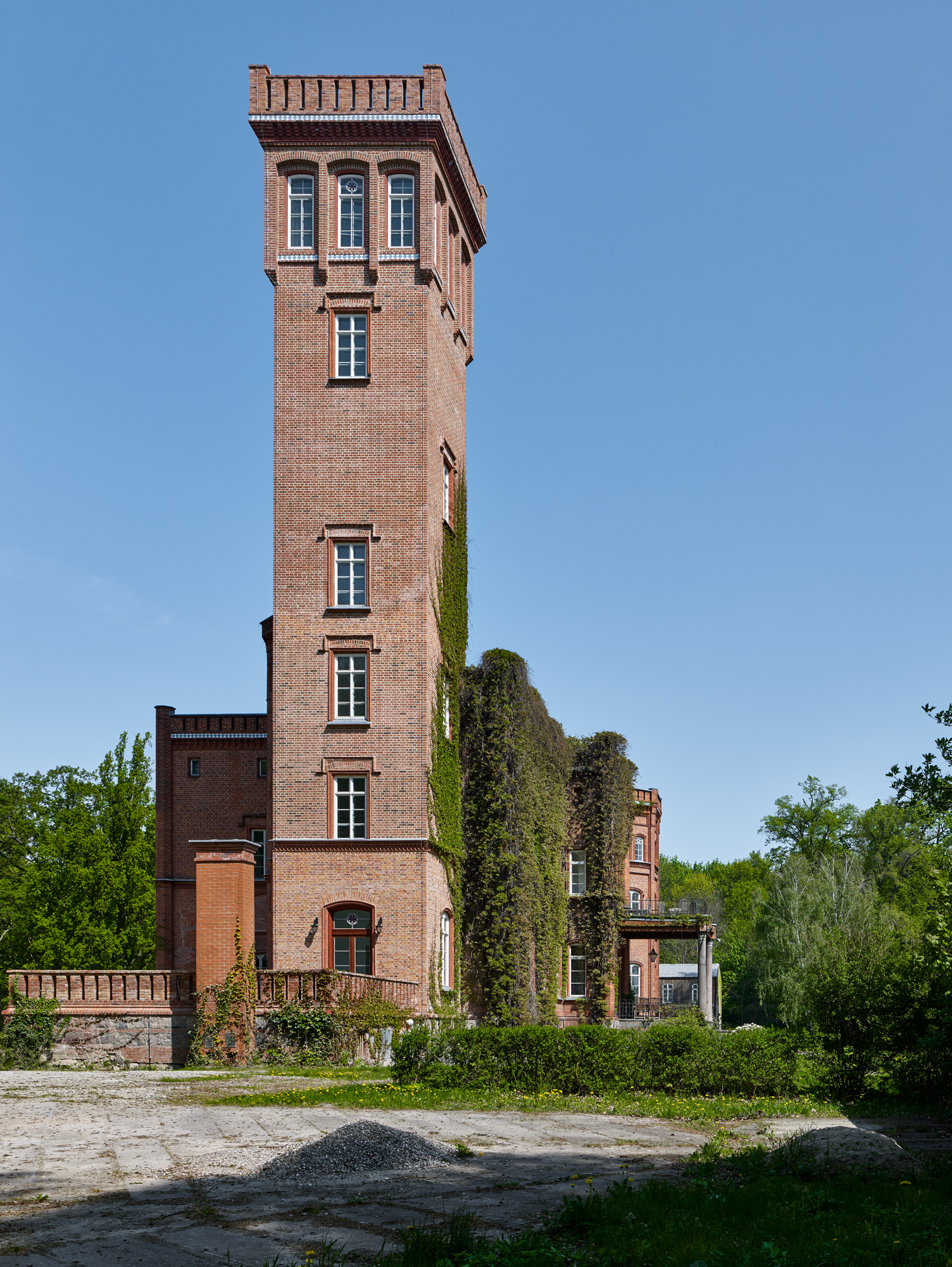 Schloss Arendsee in the Uckermark